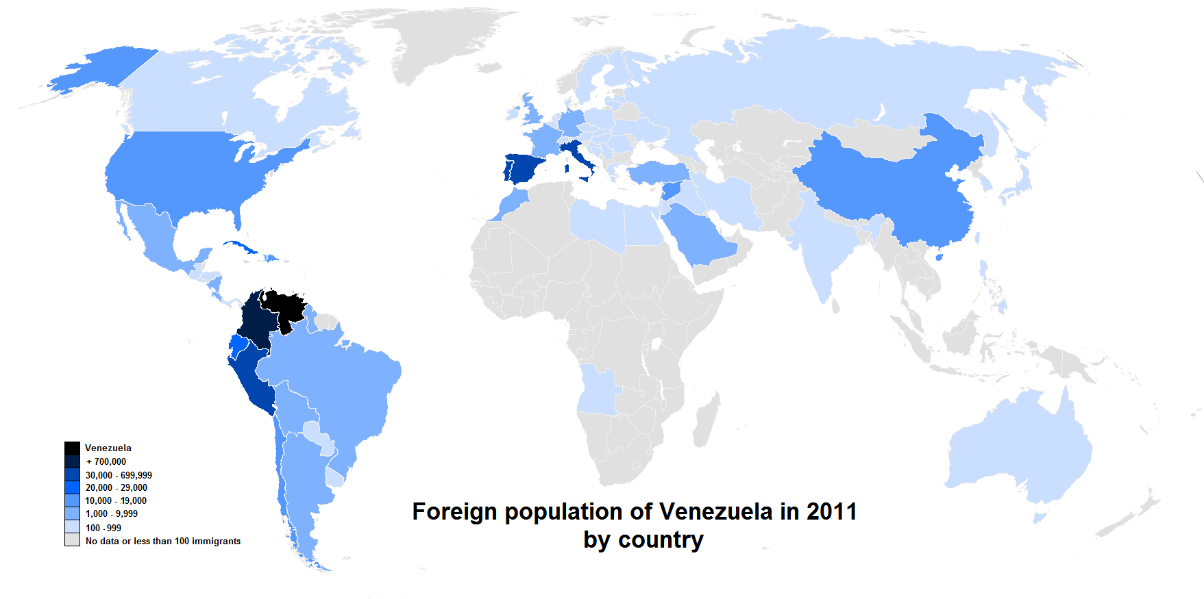 Foreign population in Venezuela on 2011